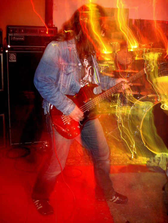 Orange Sunshine @ Morlock Gallary Concert of High on Fire and Orang Sunshine at the Morlock Gallery in The Hague in 2008